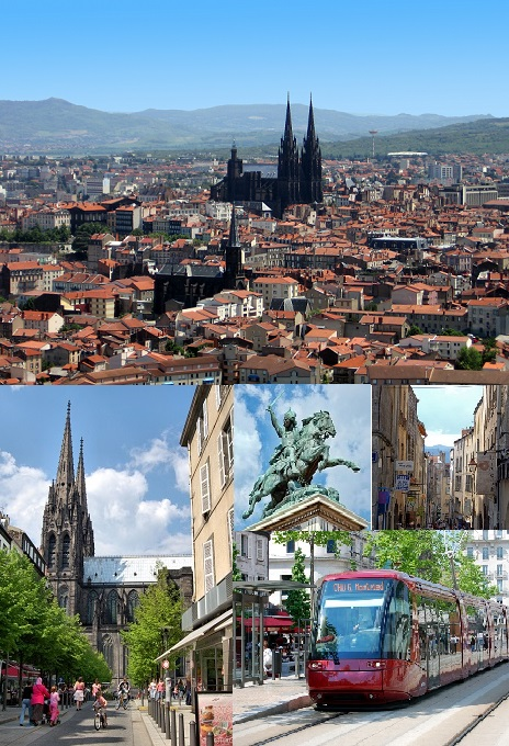 Photomontage of Clermont-Ferrand with: Historic centre of Clermont, Cathedral and square of La Victoire, Vercingetorix Equestrian Statue, Street of the Chaussetiers, Tramway.